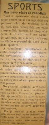 Notification of the creation of Santos FBC, published on a Brazilian newspaper.